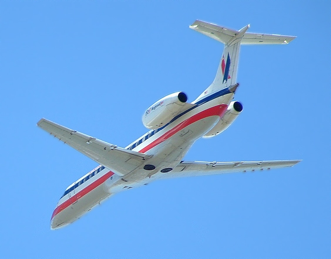 I took the photo at Gravelly Point Park. The source url is